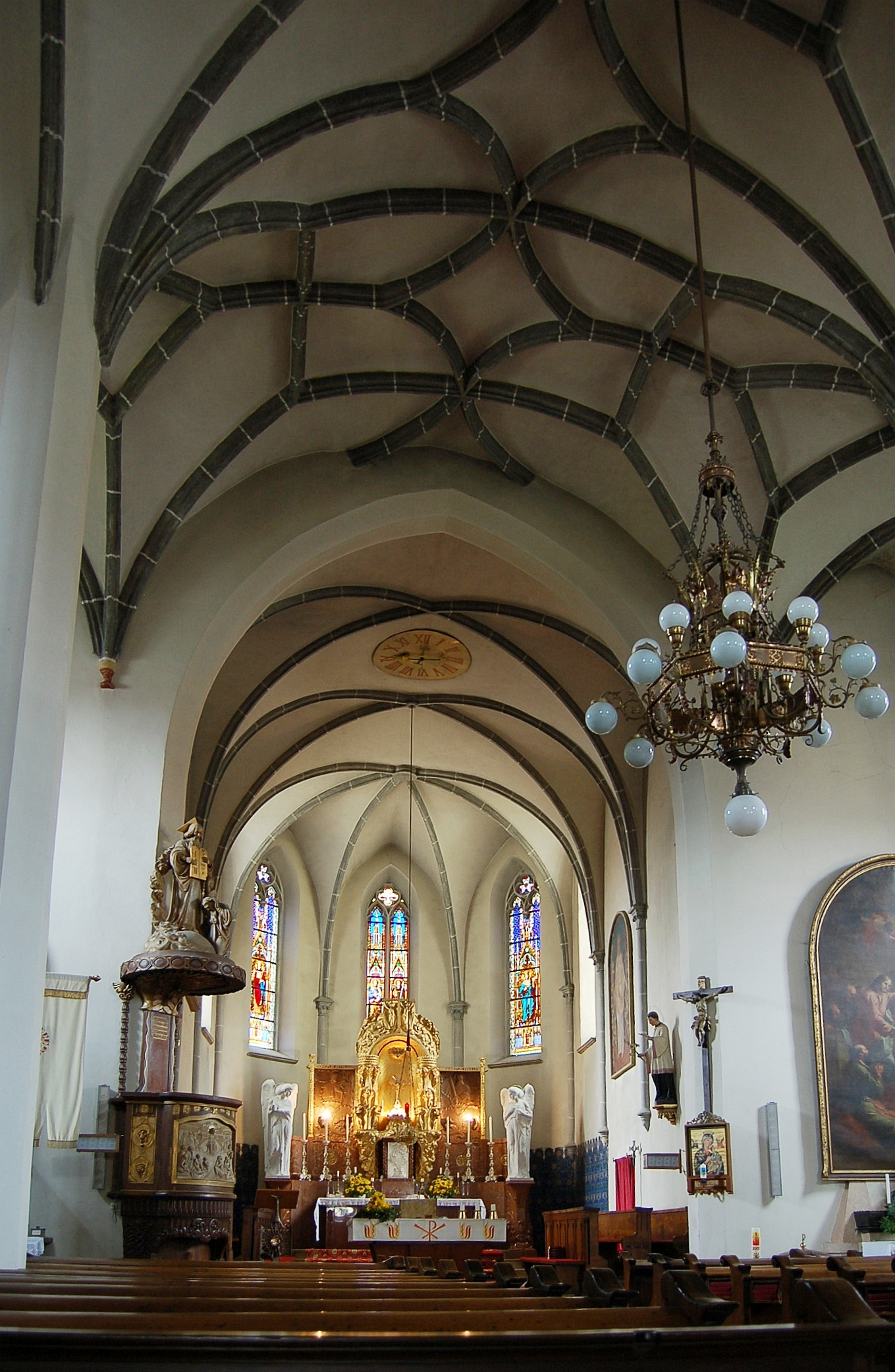 Interior of Saints Peter and Paul parish church of St. Peter in der Au, Lower Austria